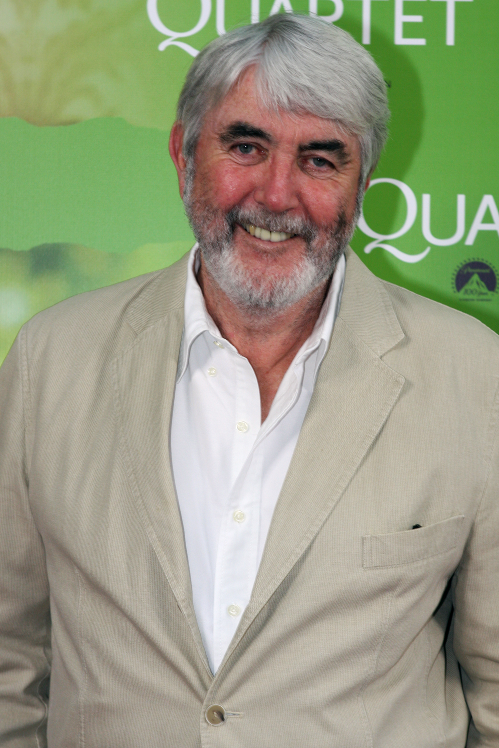 Quartet red carpet movie premiere; Dendy, Opera Quays, Sydney, Australia... 'Quartet' enjoyed its Sydney, Australia movie premiere at Dendy Opera Quays this afternoon, appropriately with the Sydney Opera House in the background. A curious Sydney crowd of both Sydney-siders and visitors gathered to see what all the fuss was about on this very warm arvo. It was all about generating publicity for this new release from movie powerhouse, Paramount Pictures. The movie is not going to be everyone's cup of tea, but if your into sophisticated music, opera and that kind of thing, this movie is for you. You're either going to love or hate this movie which marks the directing debut for Dustin Hoffman. Last month Hoffman received the Hollywood Breakthrough Director Achievement Award at the 16th annual Hollywood Film Awards. The tag-line reads 'Four friends must face the music'. Movie reviewers are going to have a field day with the tag-line... especially if they don't appreciate this flick, and expect mixed reviews as its a niche movie if there ever was. This is not one for the action movie crowd to put it mildly. Promo: At a home for retired opera singers, the annual concert to celebrate Verdi's birthday is disrupted by the arrival of Jean, an eternal diva and the former wife of one of the residents. Storyline: Cecily, Reggie, and Wilfred are in a home for retired opera singers. Every year, on October 10, there is a concert to celebrate Verdi's birthday and they take part. Jean, who used to be married to Reggie, arrives at the home and disrupts their equilibrium. She still acts like a diva, but she refuses to sing. Still, the show must go on... and it does. Director: Dustin Hoffman Writers: Ronald Harwood (play), Ronald Harwood (screenplay) Stars: Maggie Smith, Michael Gambon and Billy Connolly Websites Paramount Pictures Australia Dendy Cinemas Eva Rinaldi Photography Eva Rinaldi Photography Flickr